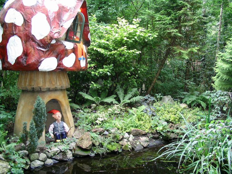 A midget in the fairy tale forest in Sprookjeswonderland.